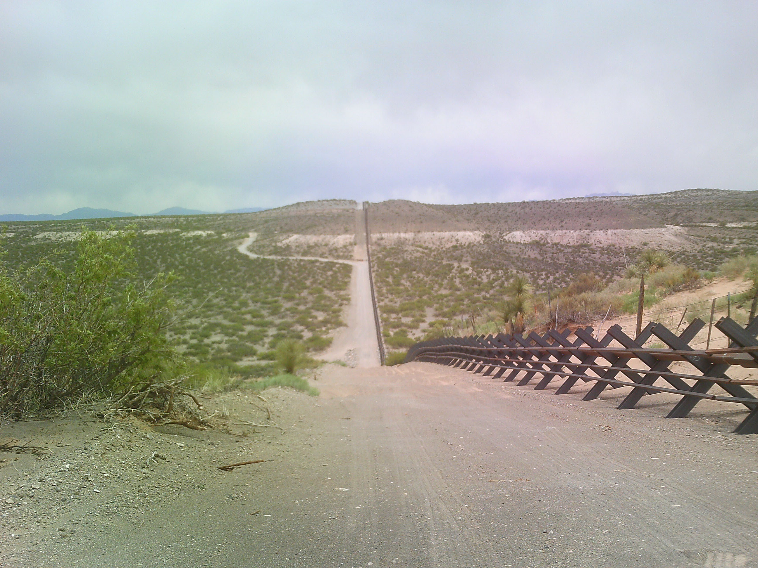 U.S./Mexico border, with vehicle barrier, in New Mexico and Chihuahua near International Boundary Monument number 9.